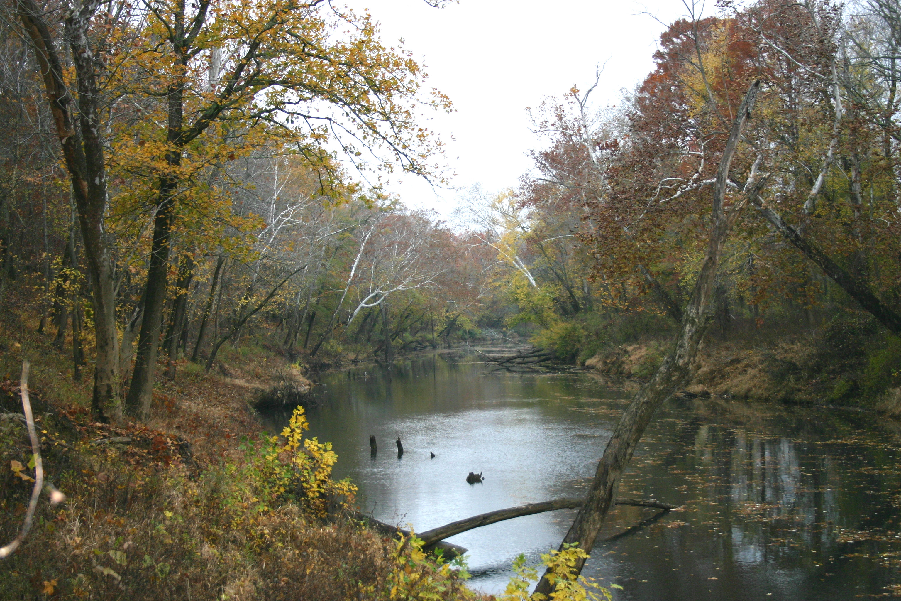 Please credit: Andy Eller, U.S. Fish and Wildlife Service (USFWS).